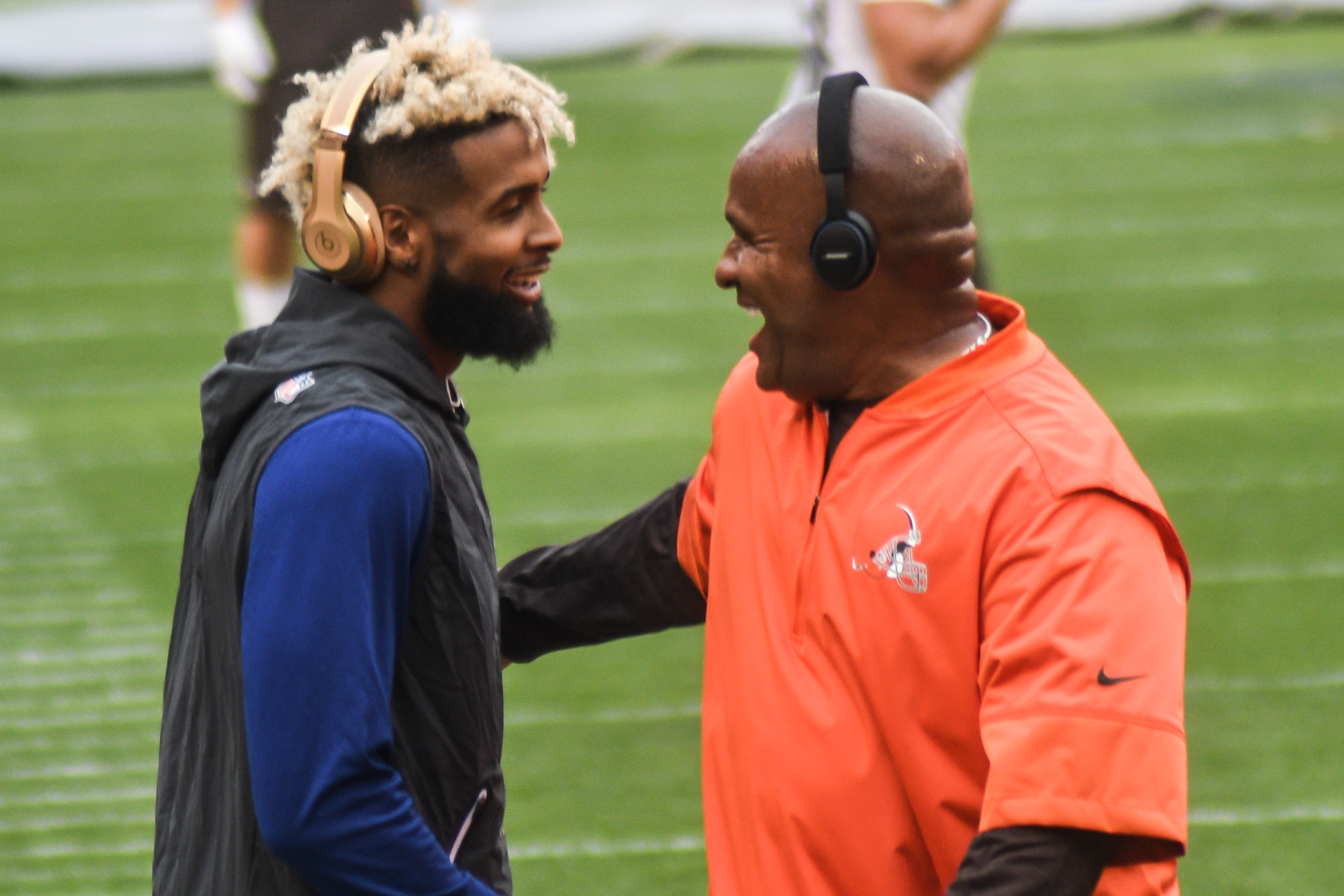 Cleveland Browns vs. New York Giants